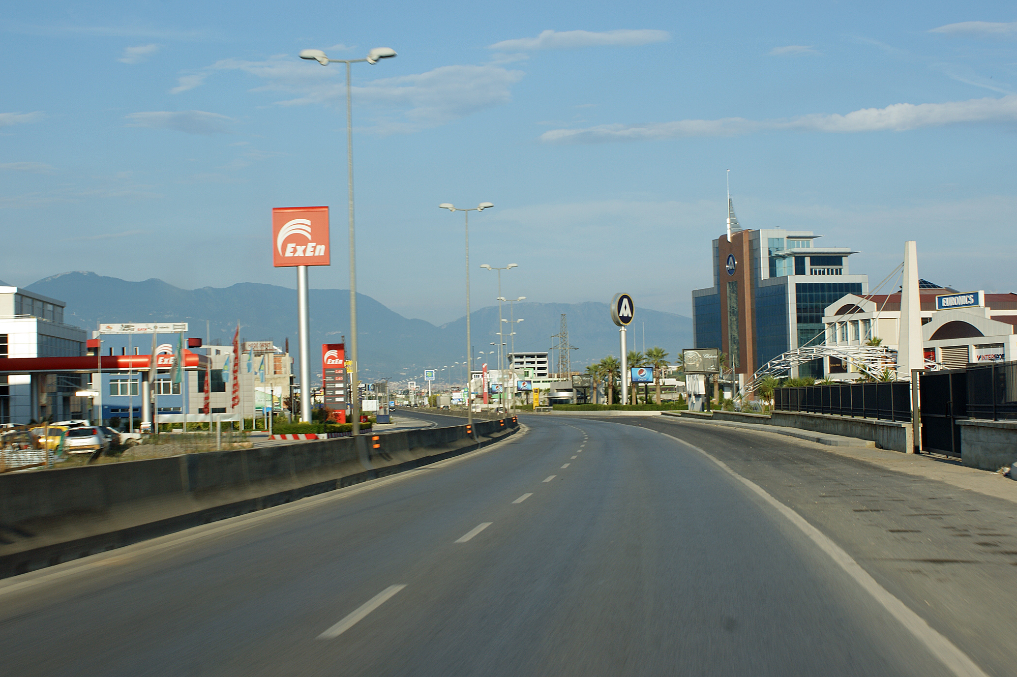 Highway Durrës-Tirana (National road SH 2) close to City Park – direction Tirana, Mount Dajti in the background